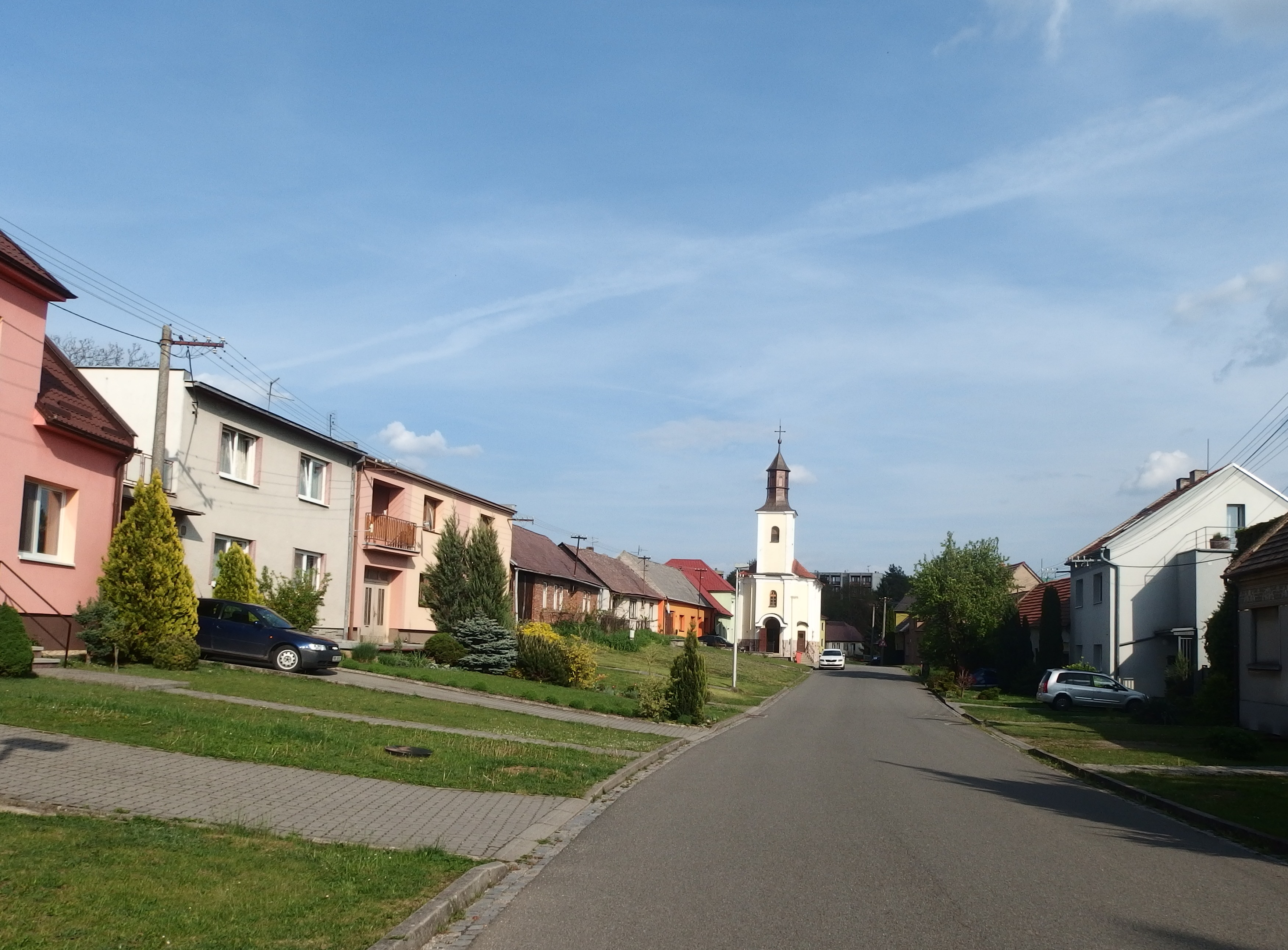 Vážany, Uherské Hradiště District, Czechia.